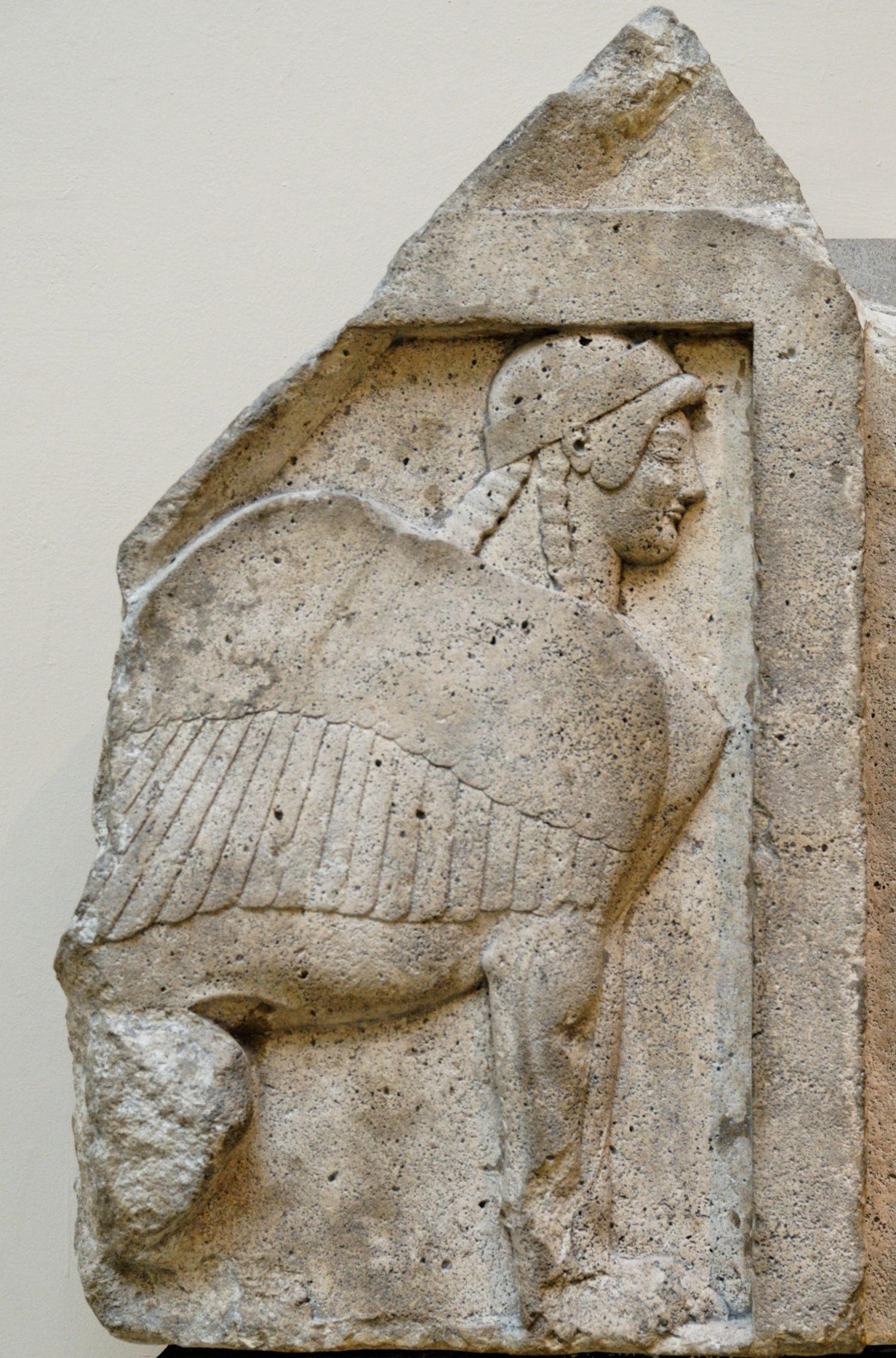 Guardian sphinx facing right. Left panel from a gable attributed to Building H in the Acropolis of Xanthos in Lycia, ca. 460 BC.